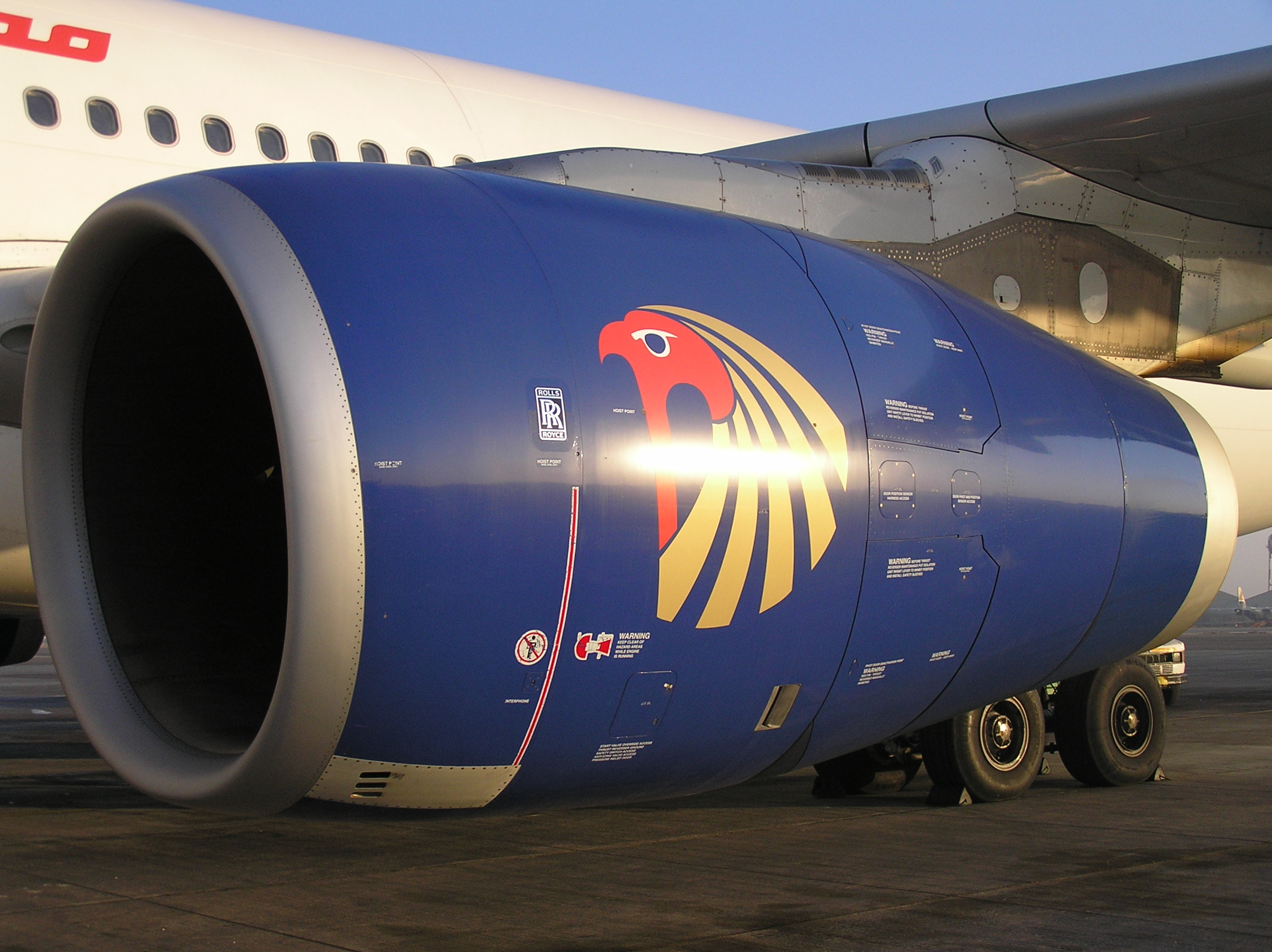 Rolls Royce jet engine of a EgyptAir Airbus A330.